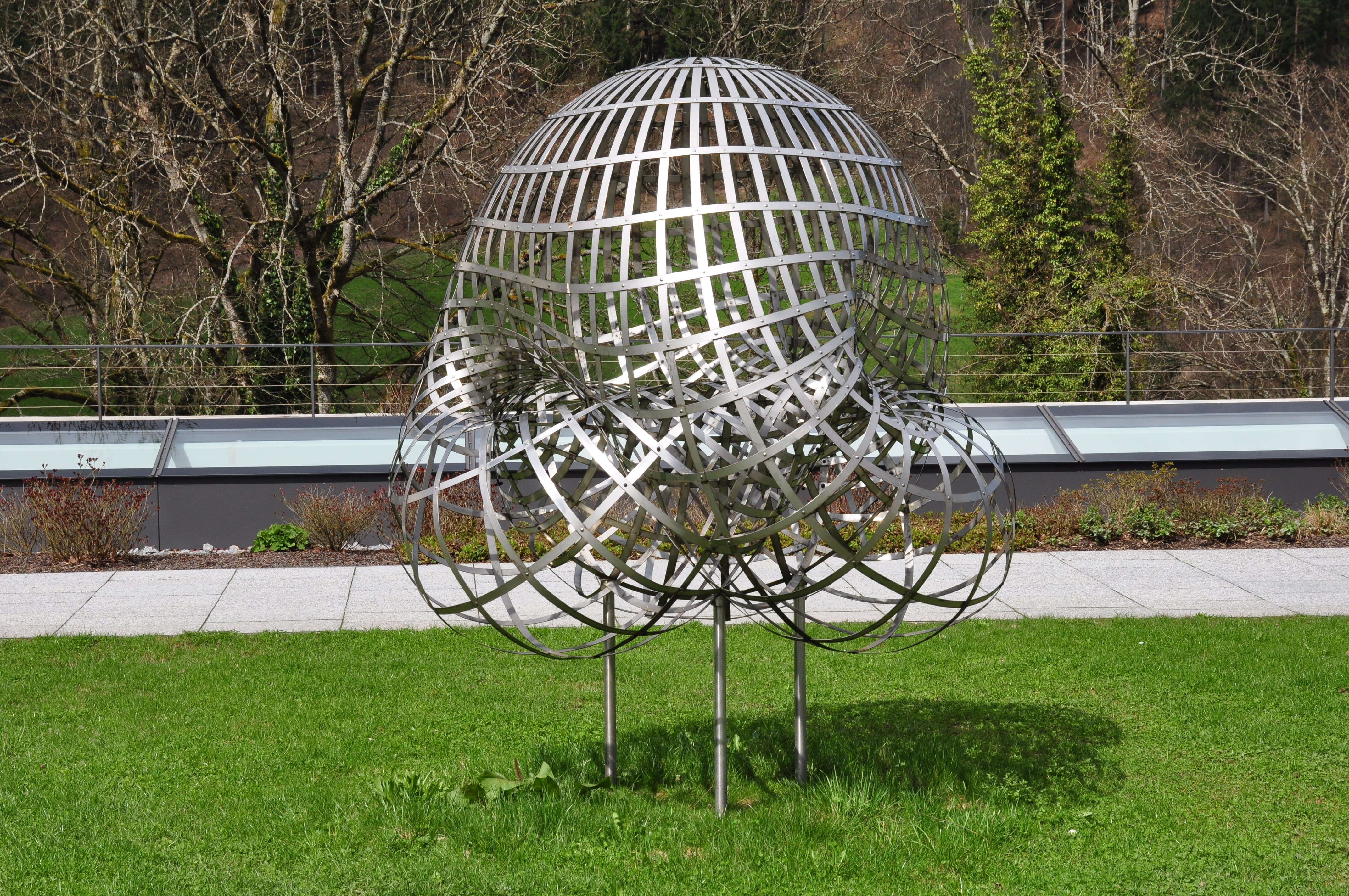 The Boy's Surface at the Mathematical Research Institute of Oberwolfach